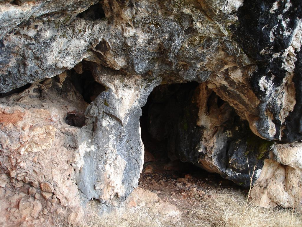 Cave of Monte Consolino (Stilo)